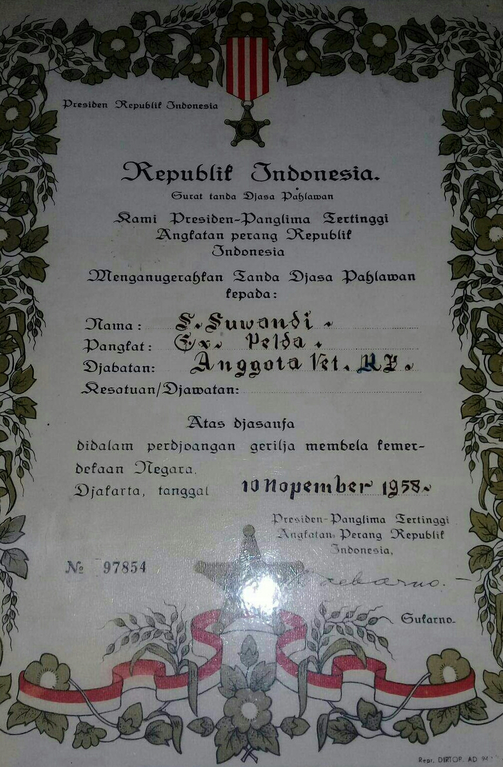 Suwandi Bintang Gerilya